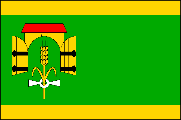 Municipal flag of Nový Dvůr , District Nymburk, Czech republic